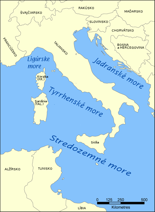 description: sk translation of map from commons, same licence source: Image:Tyrrhenian Sea map.png Licensing